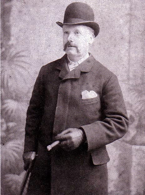 George Lusk, the man who received the "From Hell" letter, one of numerous letters claiming to be from the 1888 Whitechapel murderer, otherwise known as Jack the Ripper.